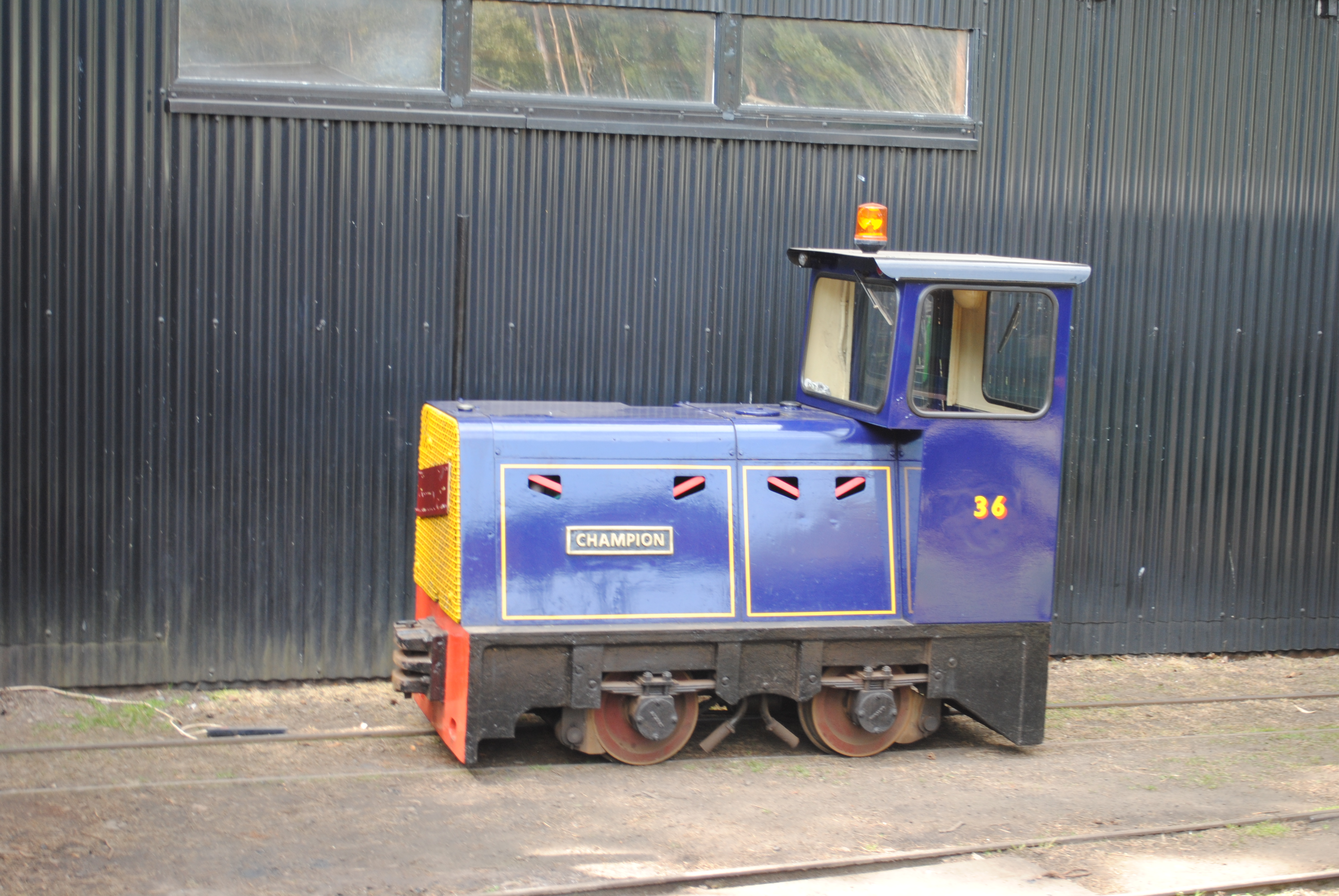 A 2ft preserved diesel locomotive built by Hunslet Engine Company in 1971.